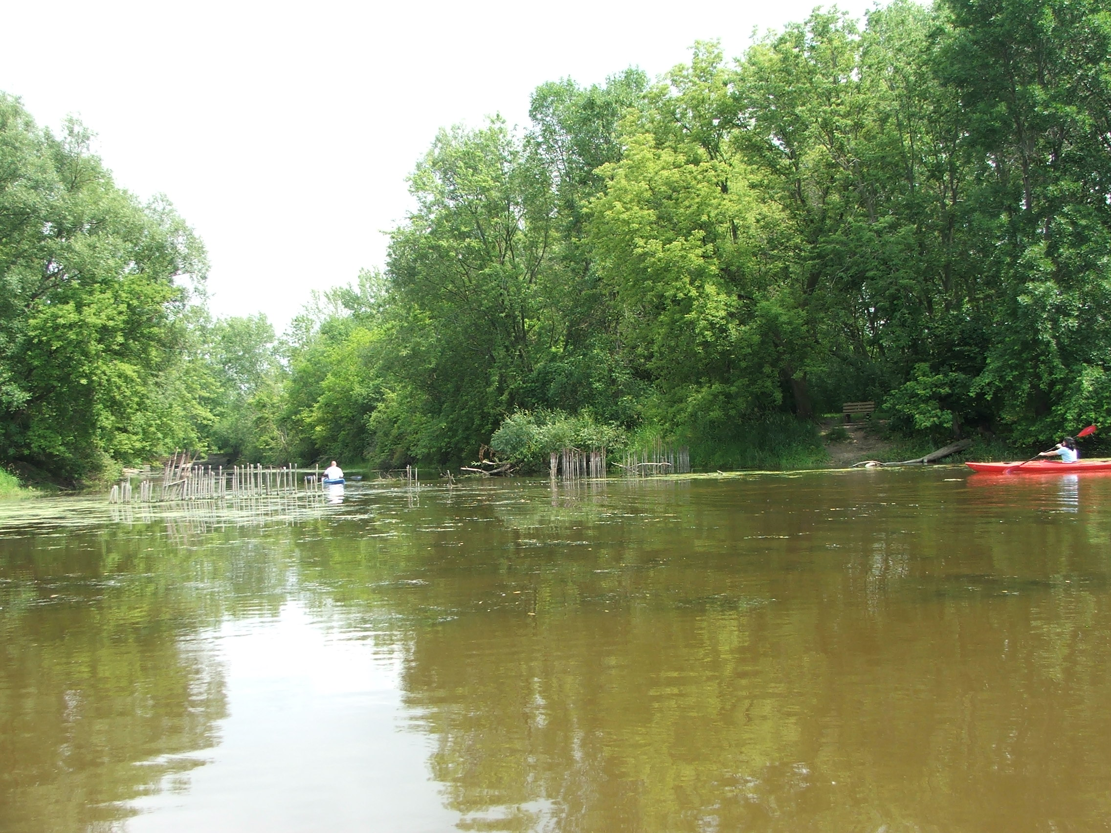 Kayaks on the Bark River, Fort Atkinson, Wisconsin